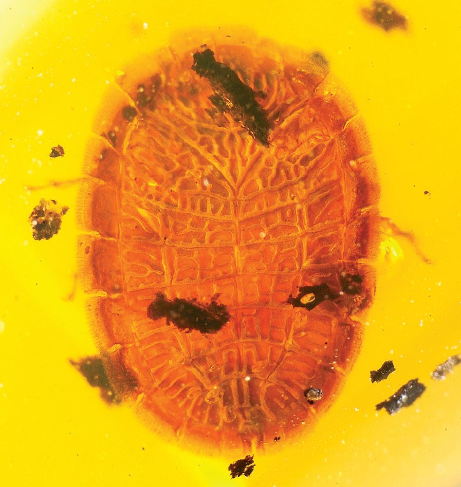 Termitaradus mitnicki (KU DR-023), photomicrograph of female holotype, dorsal aspect (length of specimen 5.8 mm).